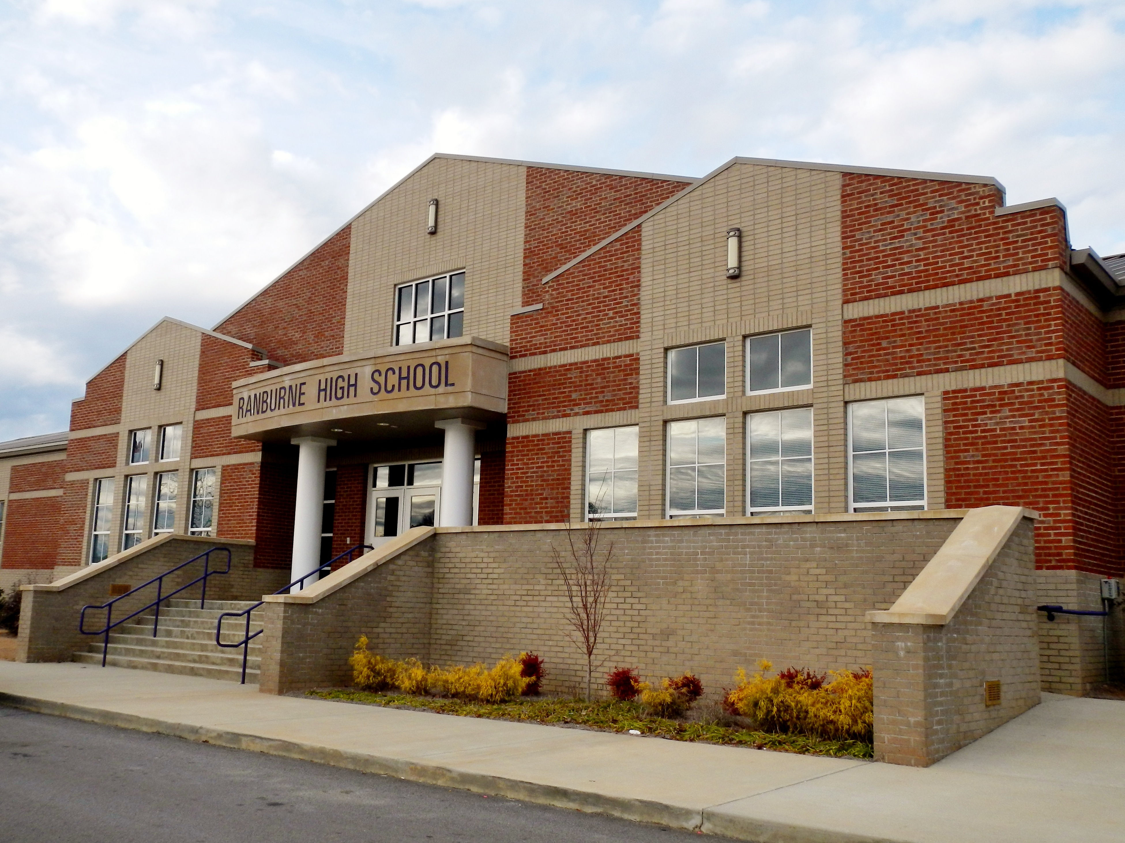 This is a photograph of Ranburn High School.